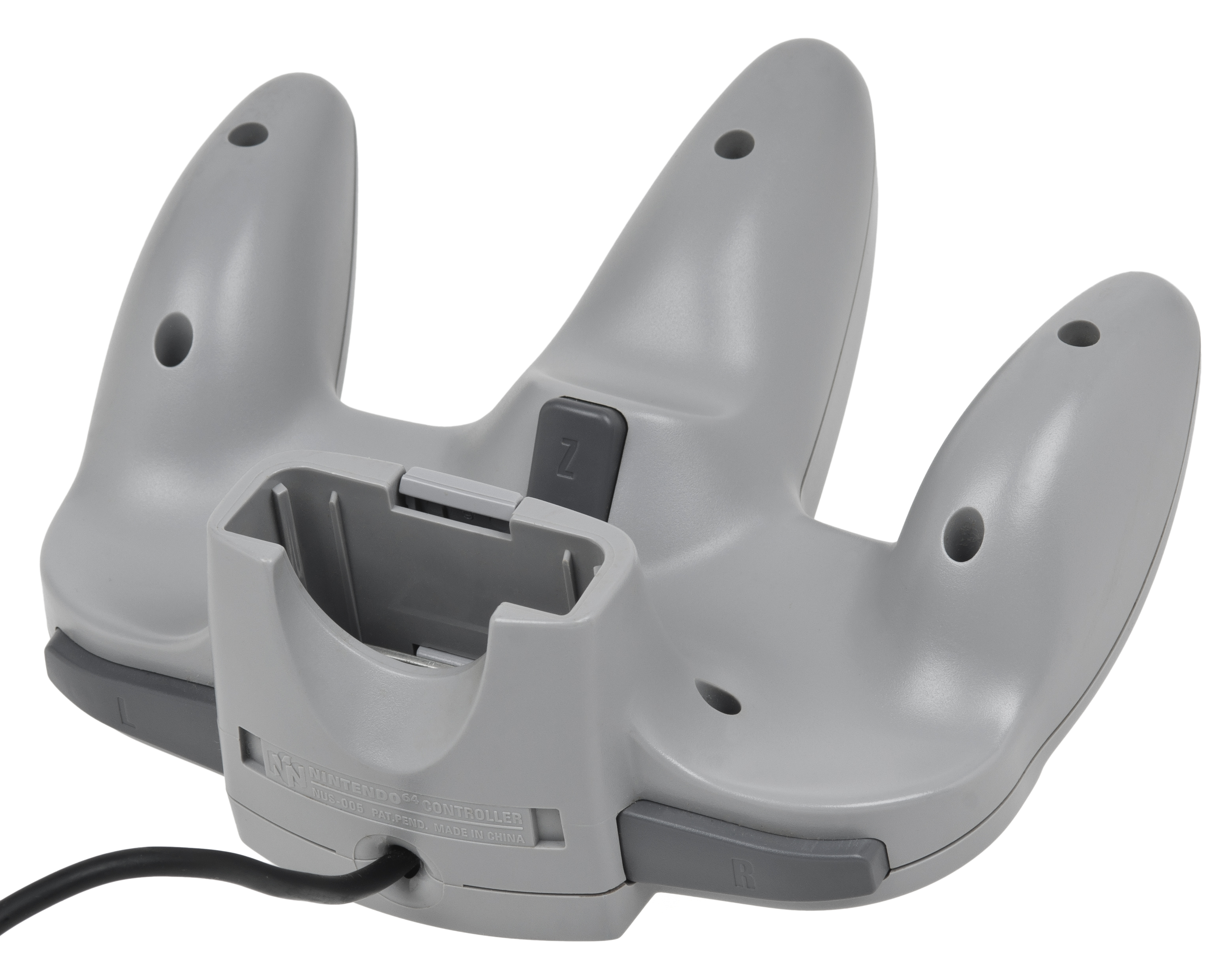 The back of a gray Nintendo 64 controller, showing the Z-trigger and expansion port.